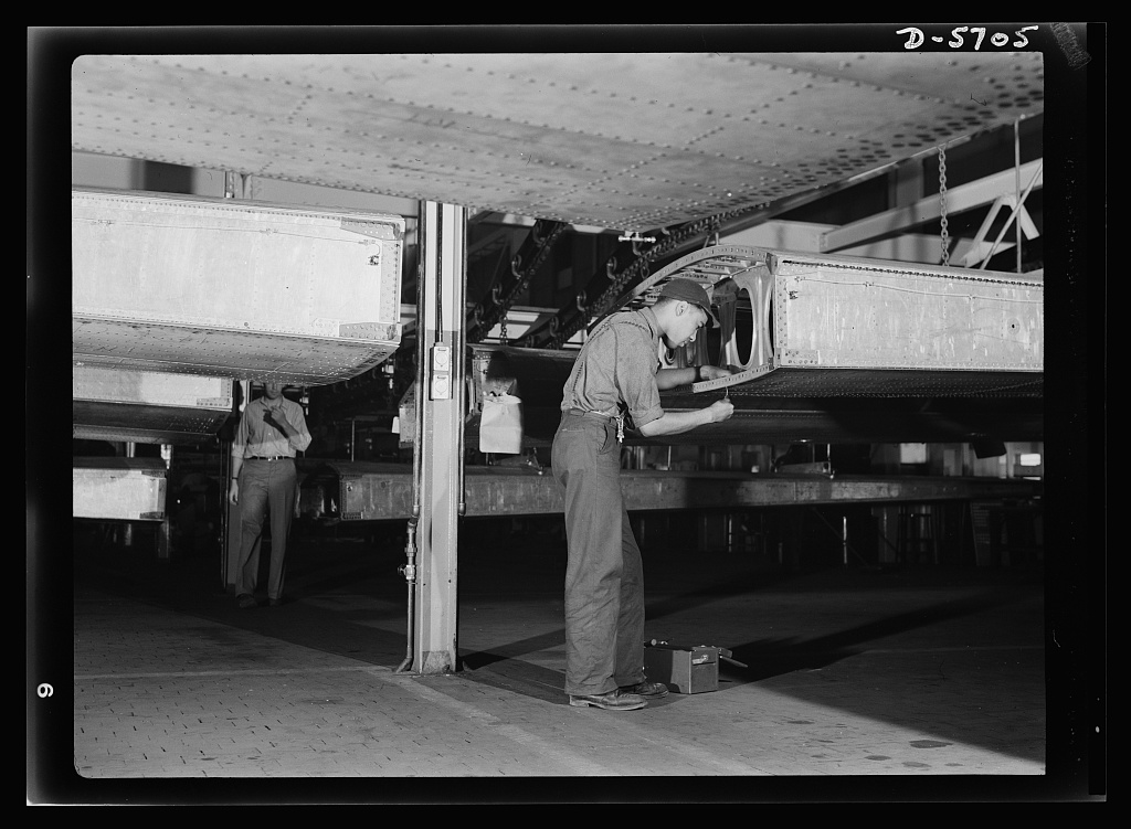 Negro worker at Willow Run installs screws in wing segment of a bomber. Note underside of wing, above. Ford plant, Willow Run